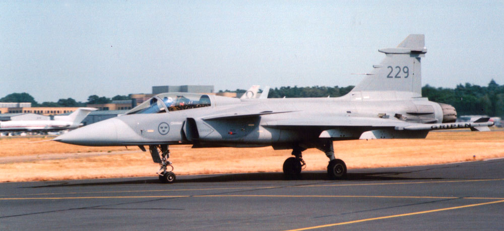 JAS 39 Gripen at Farnborough Air Show, 2006